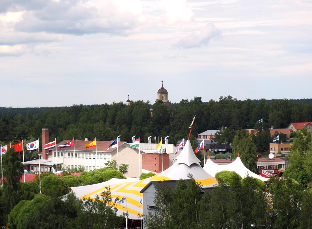 Kaustinen village, Kaustinen, Finland during Kaustinen Folk Music Festival